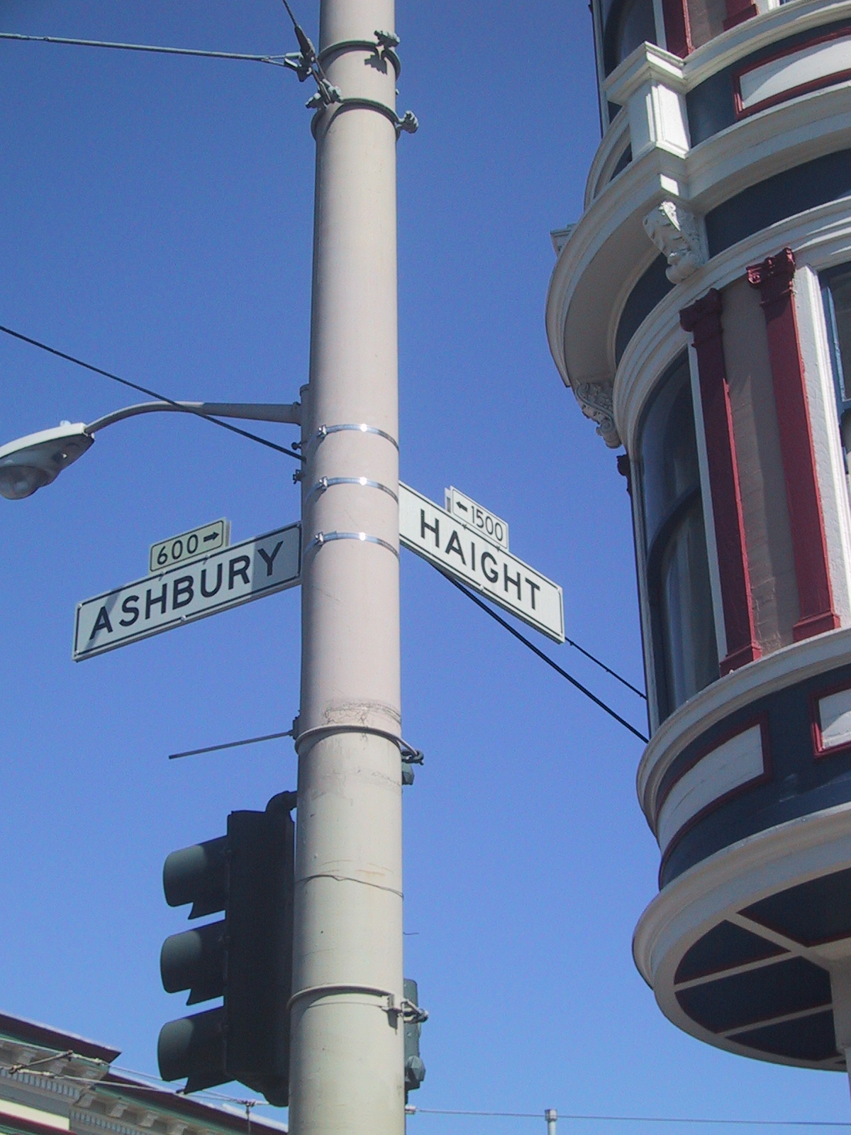 Street sign at the junction of Haight and Ashbury,San Francisco